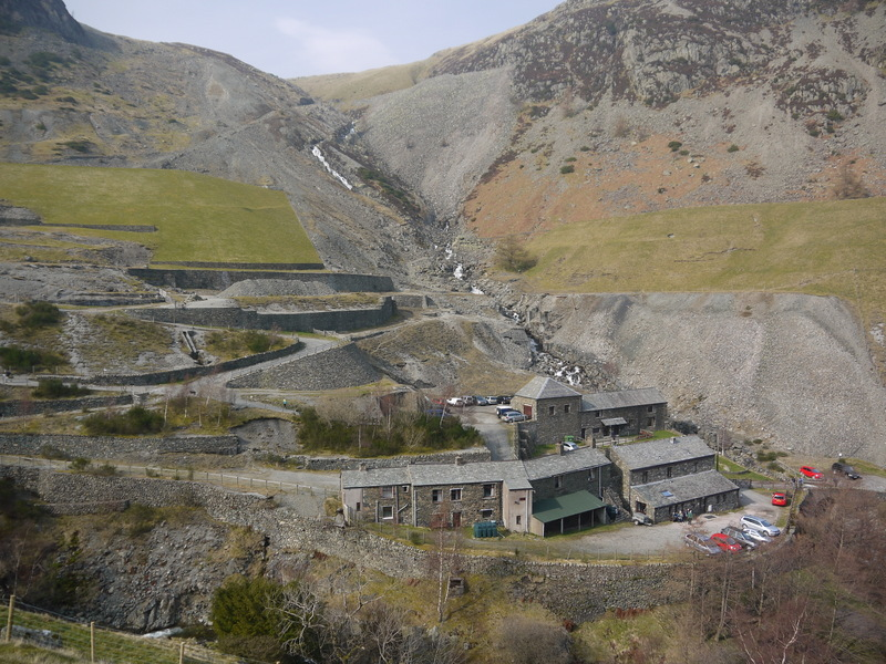 The site of Greenside Mine showing spoil heaps and some former mine buildings, above Glenridding in Cumbria